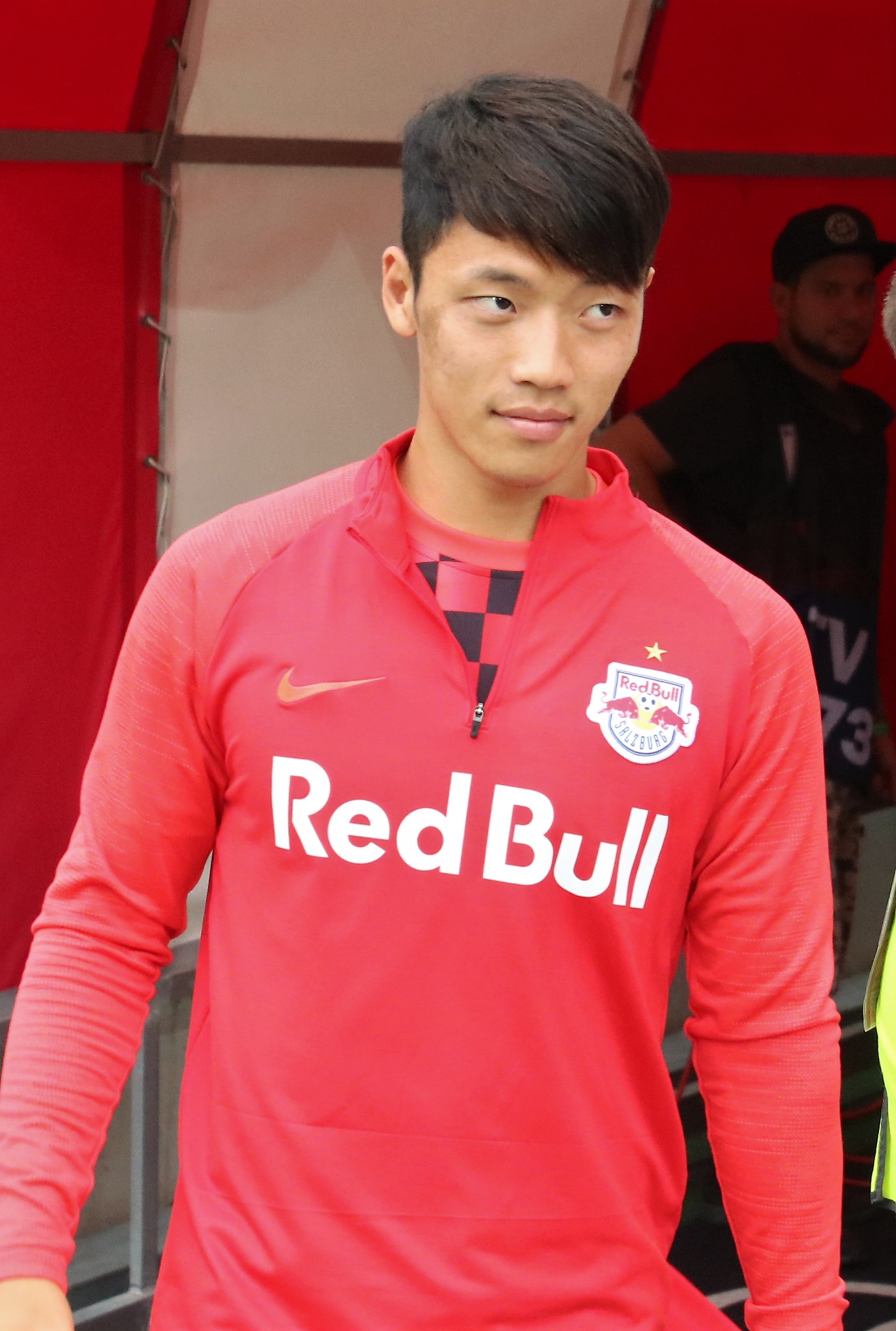 League match 3rd round Austrian Bundesliga